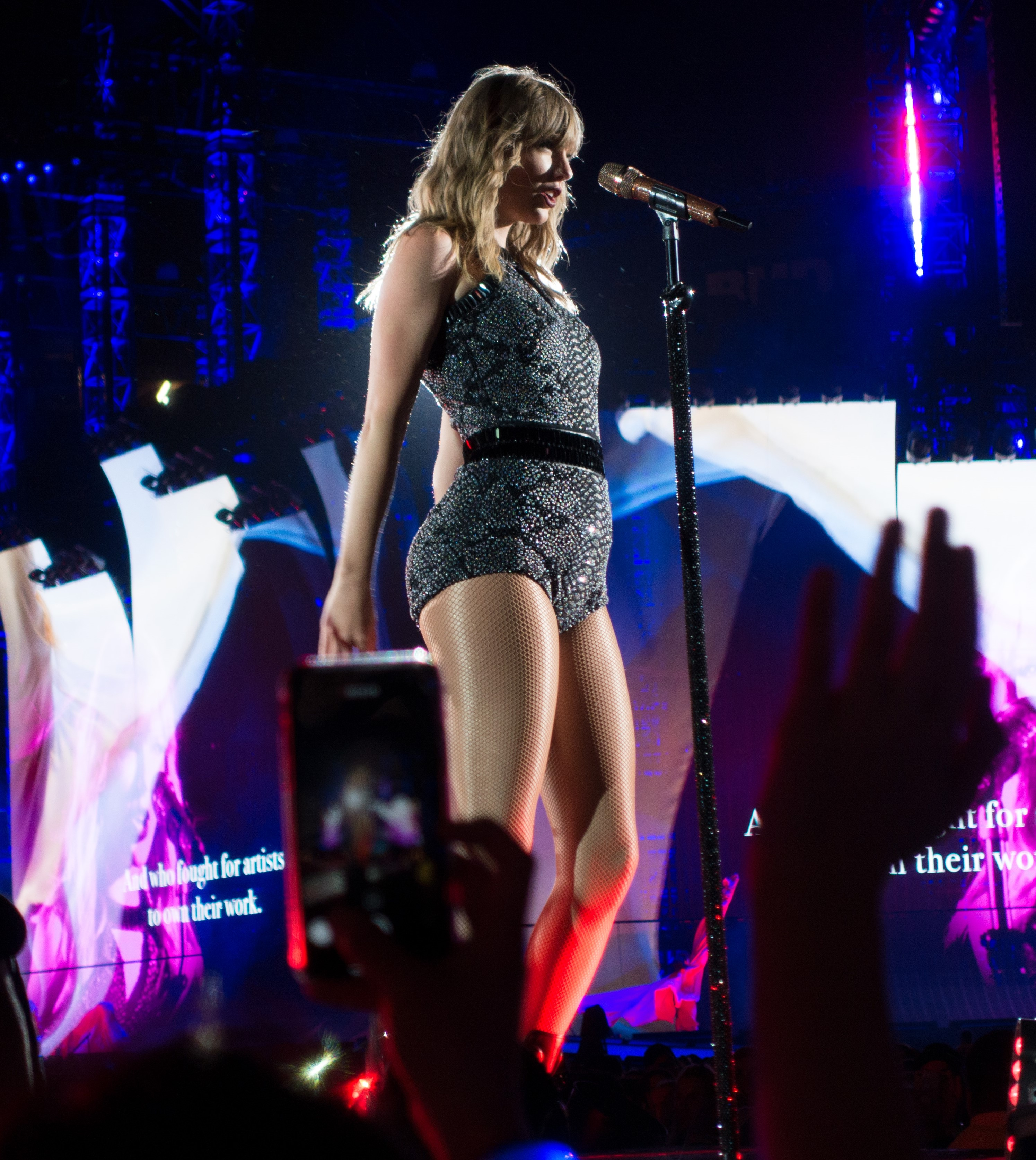 Swift performing on her Reputation Stadium Tour in May 2018